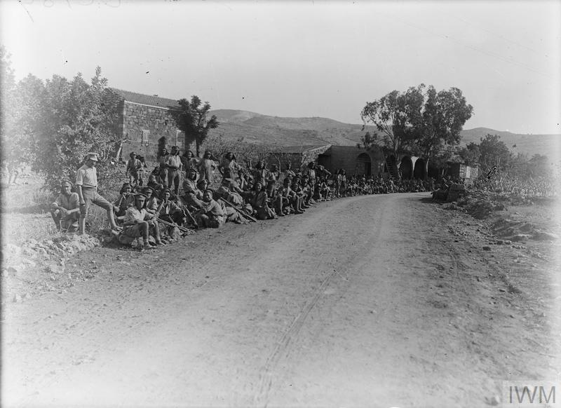 Men of the Norfolk Regiment, 54th Division, resting on the road to Beirut at the end of October 1918.